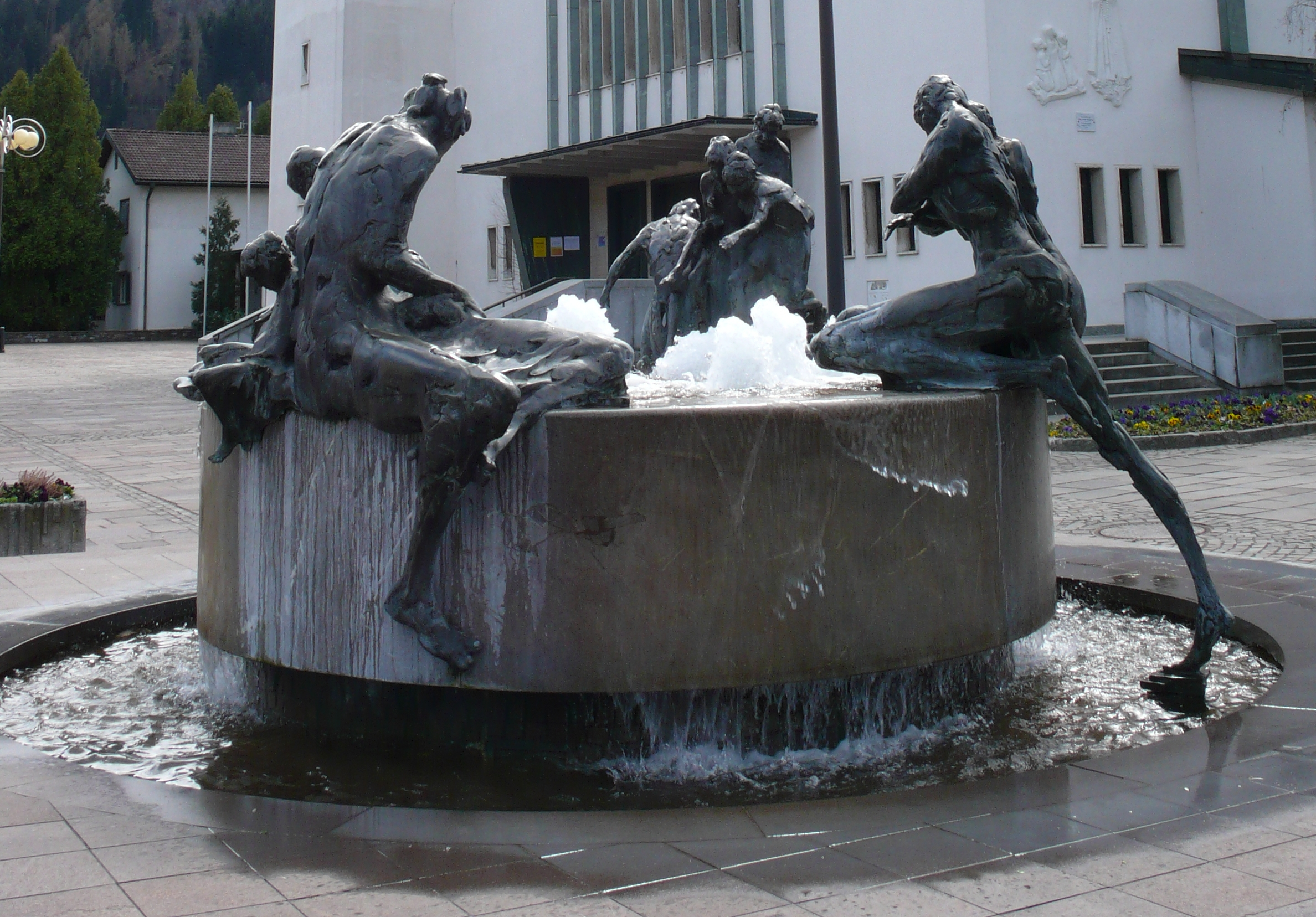 Markterhebungsbrunnen This media shows the remarkable cultural object in the Austrian state of Tyrol listed by the Tyrolean Art Cadastre with the ID 58888.